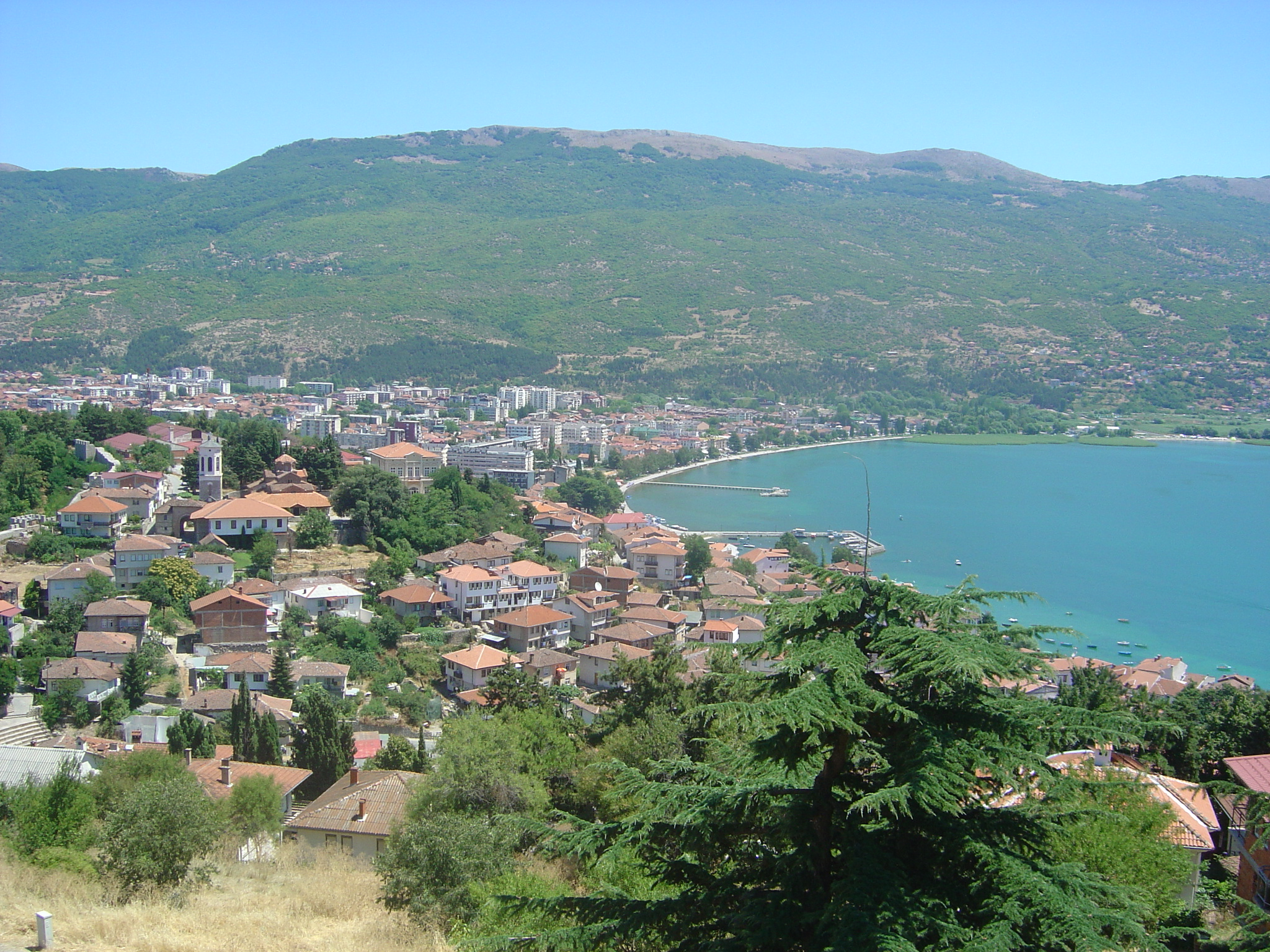 Description: A panorama shot of the city of Ohrid in the Republic of Macedonia. Author: User:PMK1 Source: Own Work